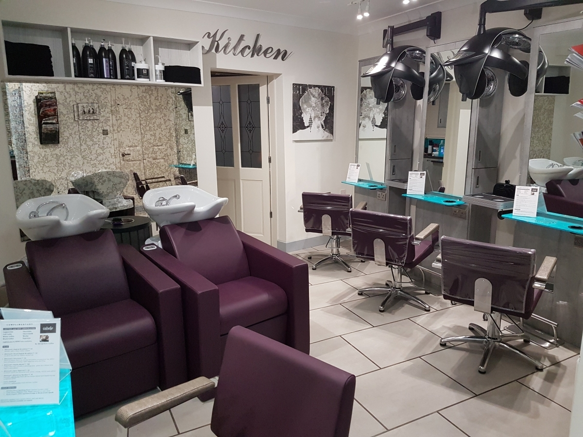 Hair wash basins, backward style in a typical salon environment. The addition of electrically operated footrests and a Shiatsu massage feature is now common